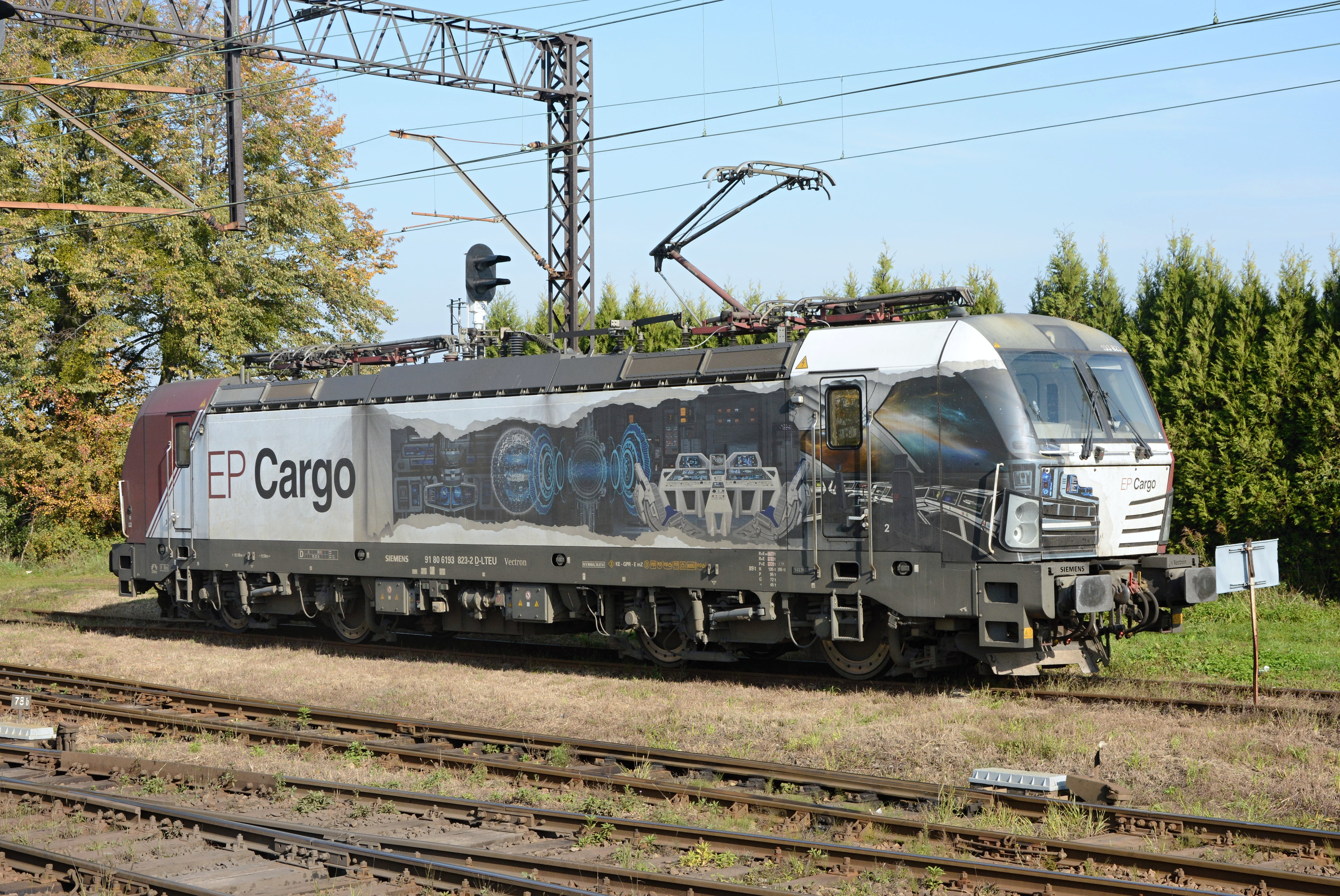 193 823 of EP Cargo (registered to LokoTrain keeper); Chałupki station, Poland